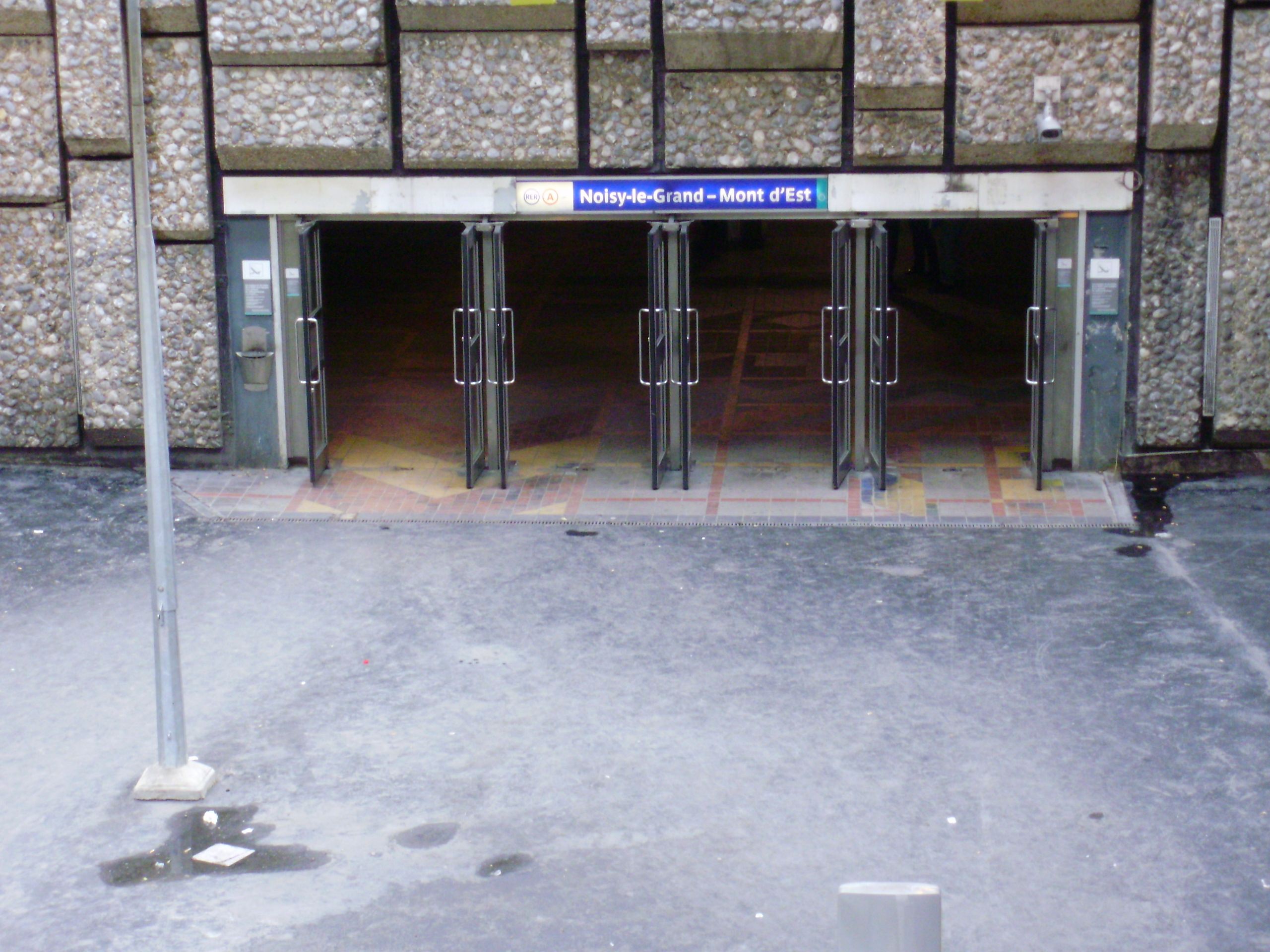 Noisy-le-Grand - Mont d'Est station, Seine-Saint-Denis, France (principal entrance of the underground station)